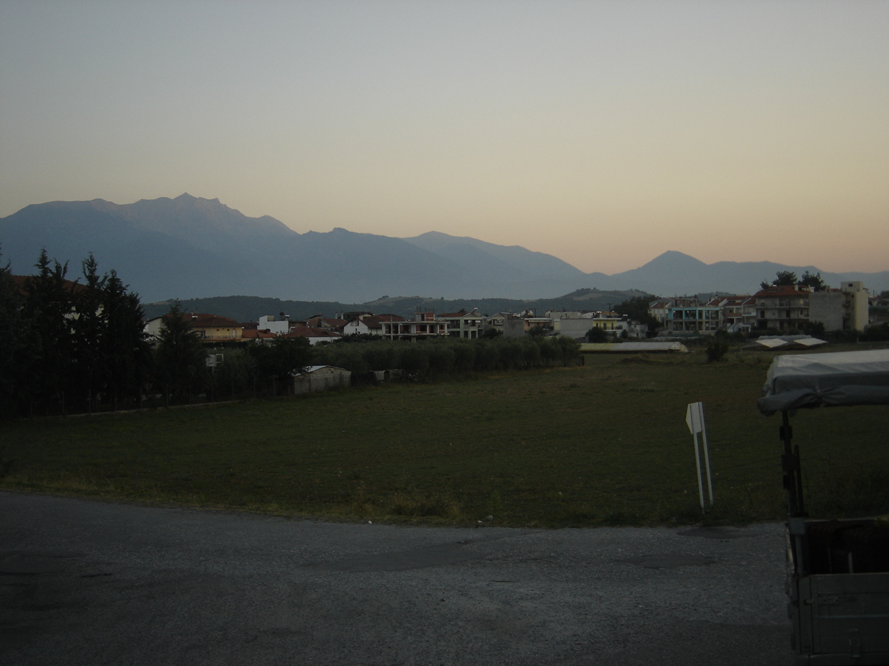 Another view of Andromahi.